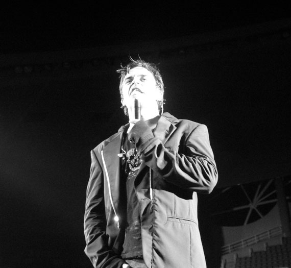 Robbie Williams during a performance in Sydney, Australia. Photo by Amanda, Robbie Williams Gallery. Lypton Village. URL accessed on November 28, en:2005. Permission has been received from the copyright holder to license this material under the license below. Evidence of this has been lodged with the Wikimedia PR department.